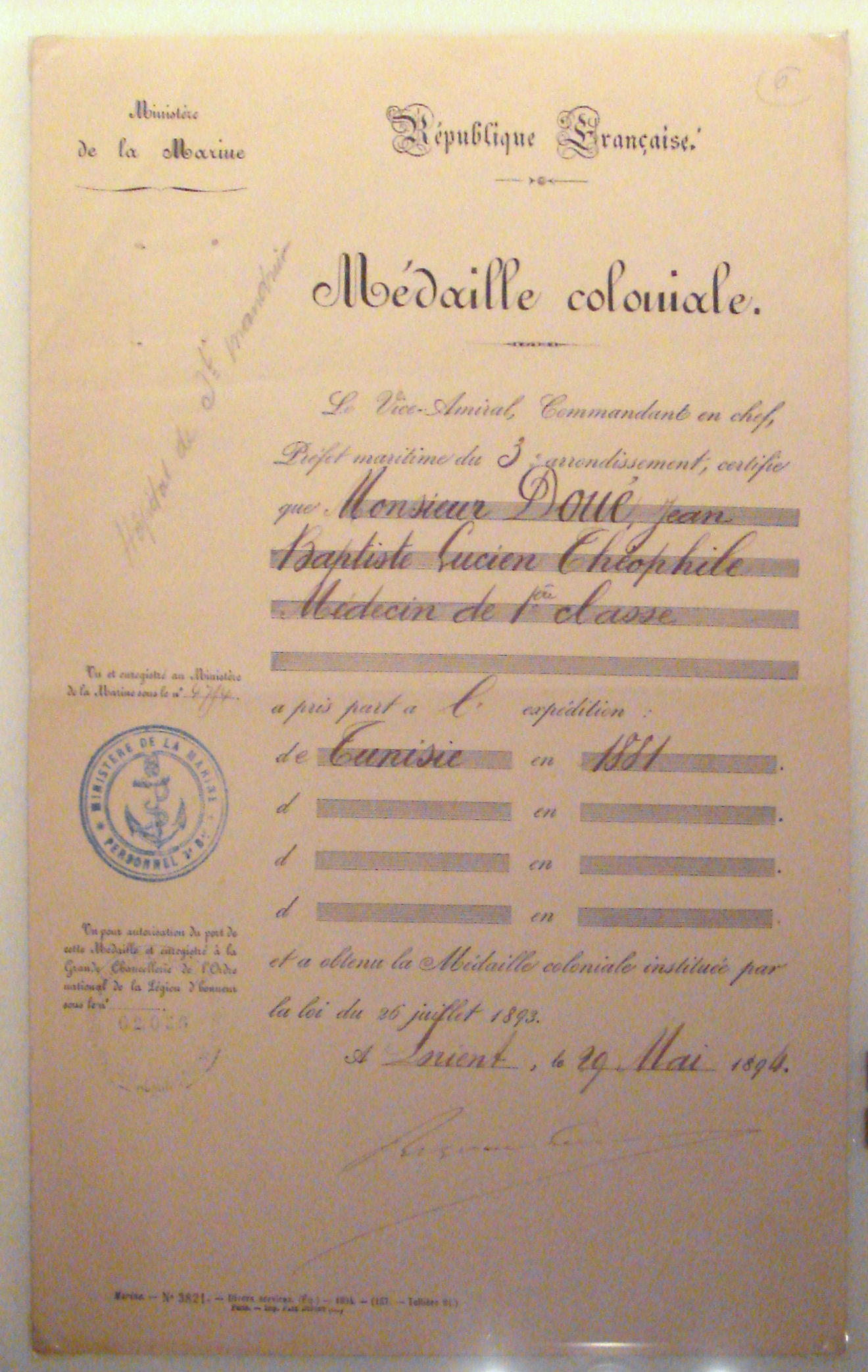 Medaille_Coloniale_certificate_of_1894_for_the_participation_in_the_1881_Tunisia_campaign_of_Military_Doctor_Jean_Baptiste_Doue